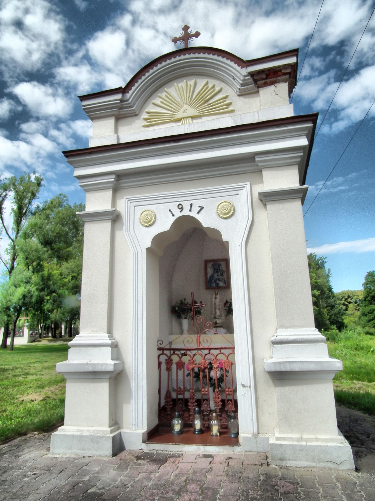 Biłgoraj ul. Lubelska – kapliczka z 1917 r.